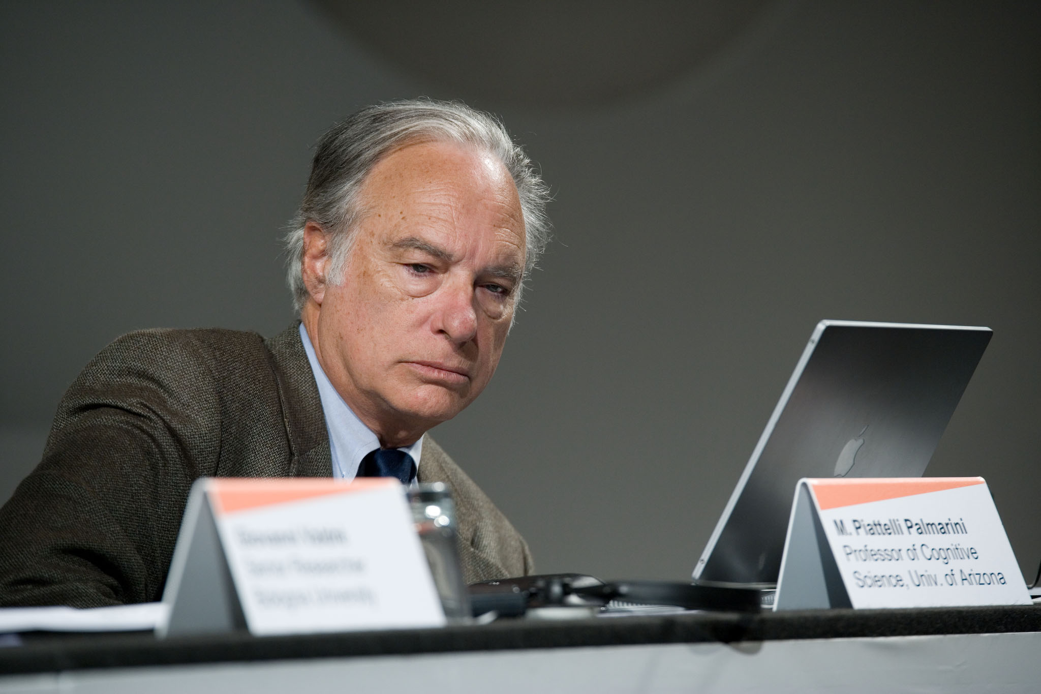 Massimo Piattelli Palmarini at Pio Manzù Centre, Rimini Oct. 2006, during the bestowal of the Chamber of Deputies' Medal.